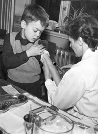 Polio vaccination started 1957 in Sweden. The photo shows the nurse Birgit Rutberg vaccinate Nils Birger Linderholm in February 1957.